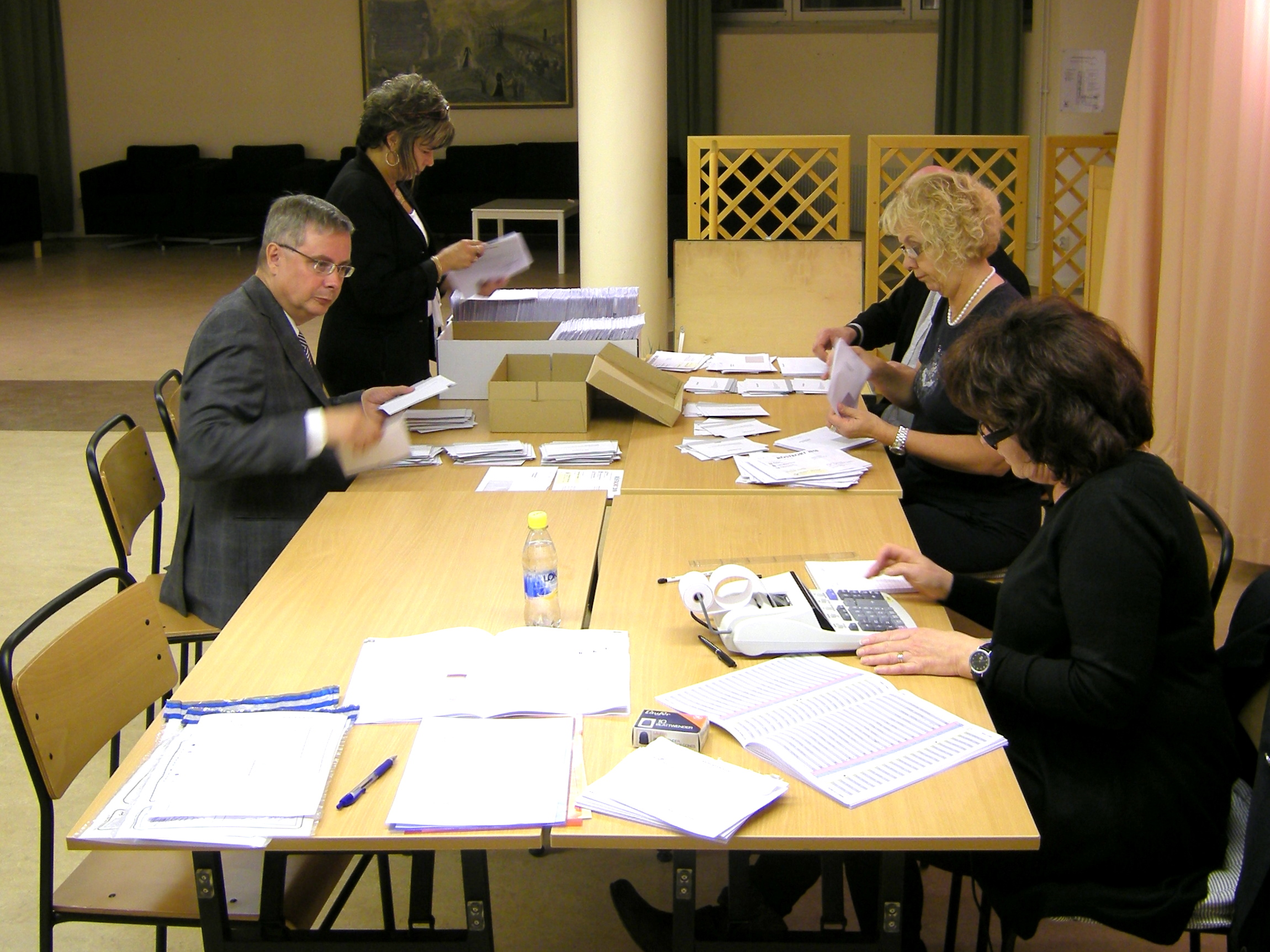 Swedish election 2010. Counting the votes.